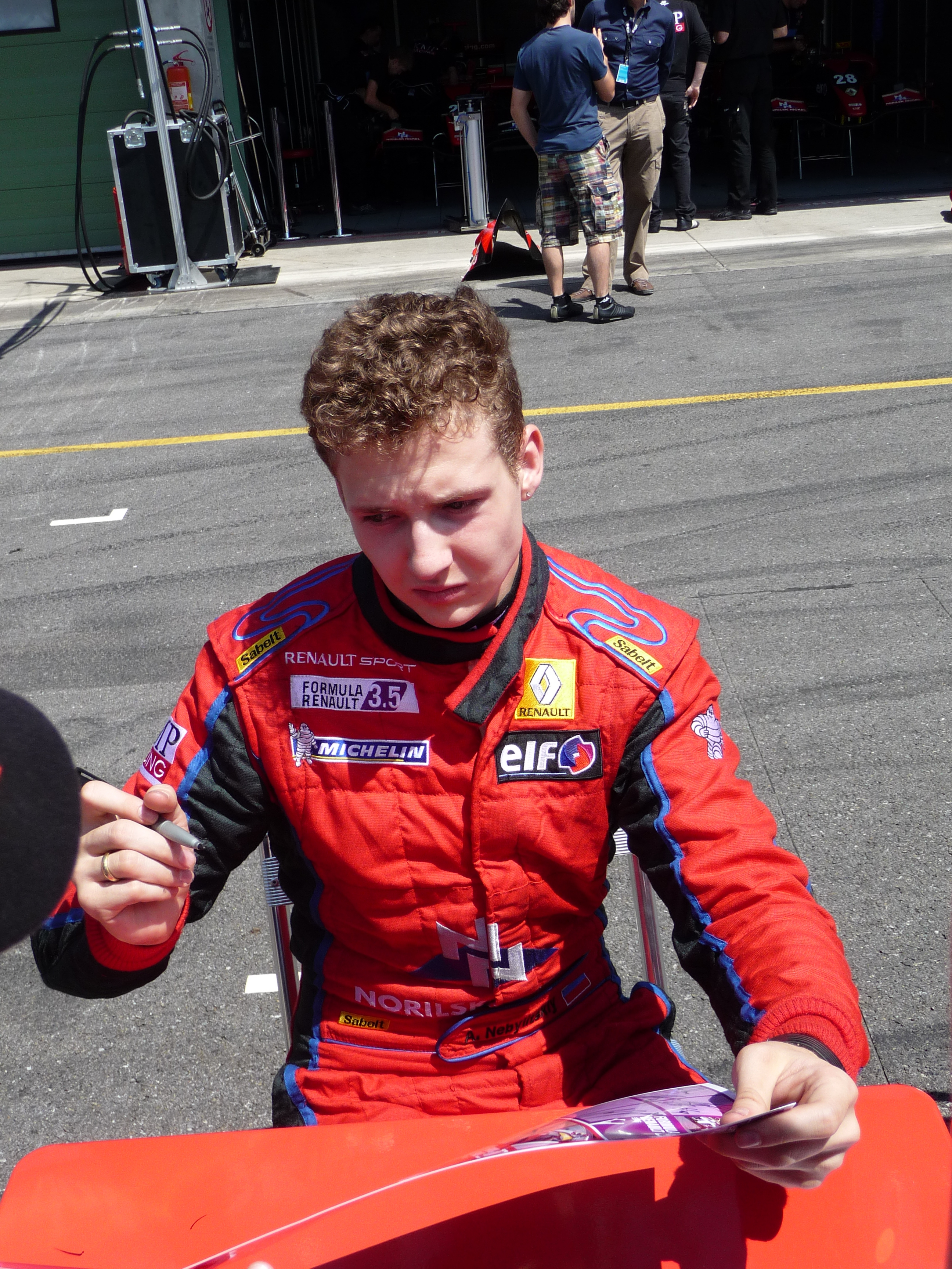 Anton Nebylitskiy, Pit walk, 2010 Brno World Series by Renault -10 -5 -3 -2 ◄ ► +2 +3 +5 +10